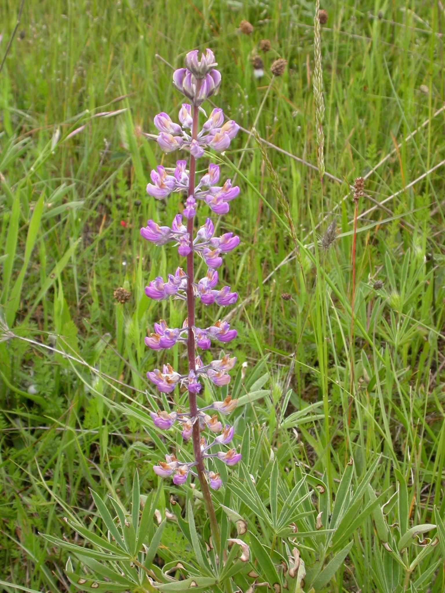 Image title: Threatened kincaids lupine flower (Lupinus sulphureus ssp. kincaidii) Image from Public domain images website